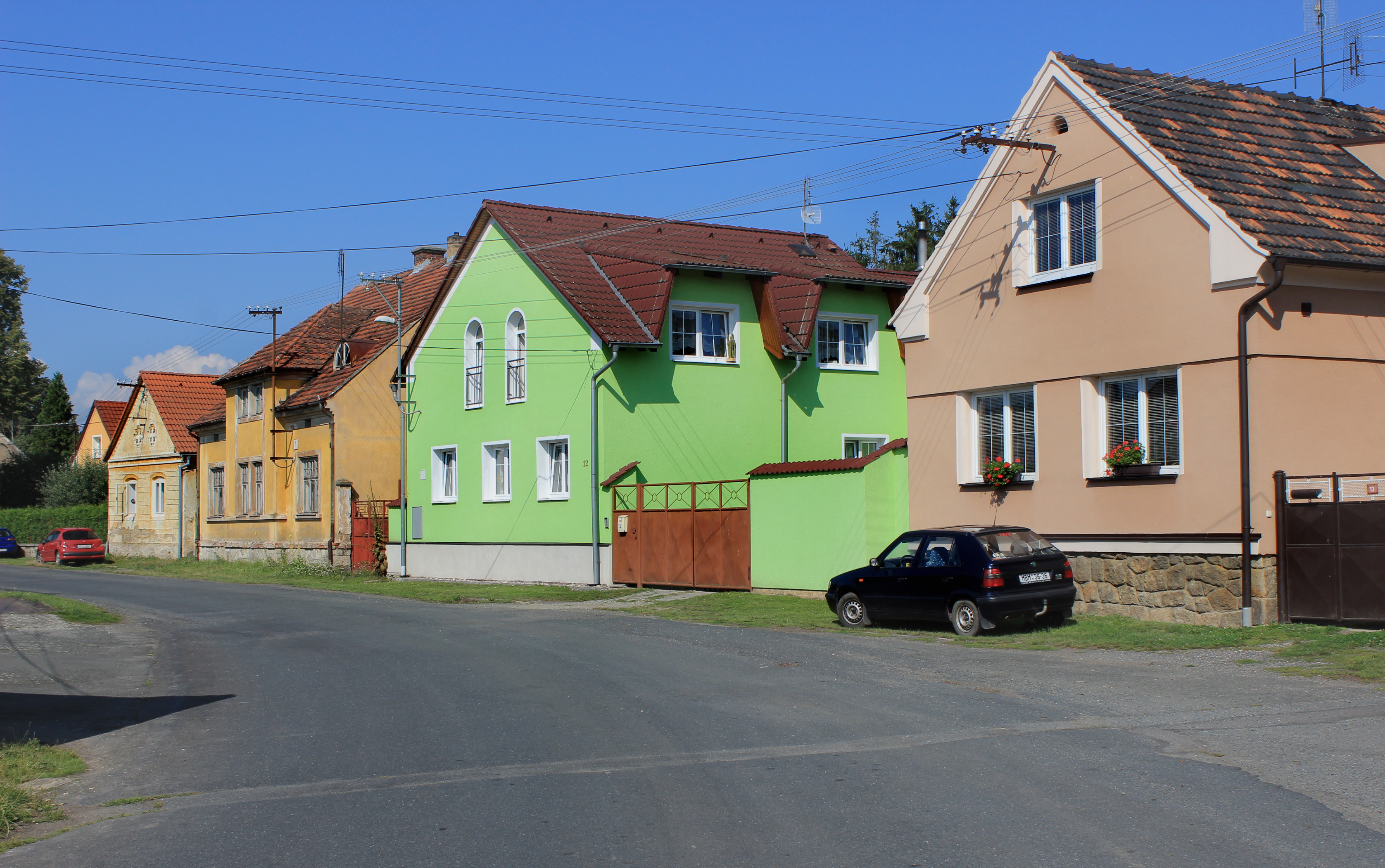 Common in Křenovy, Czech Republic.